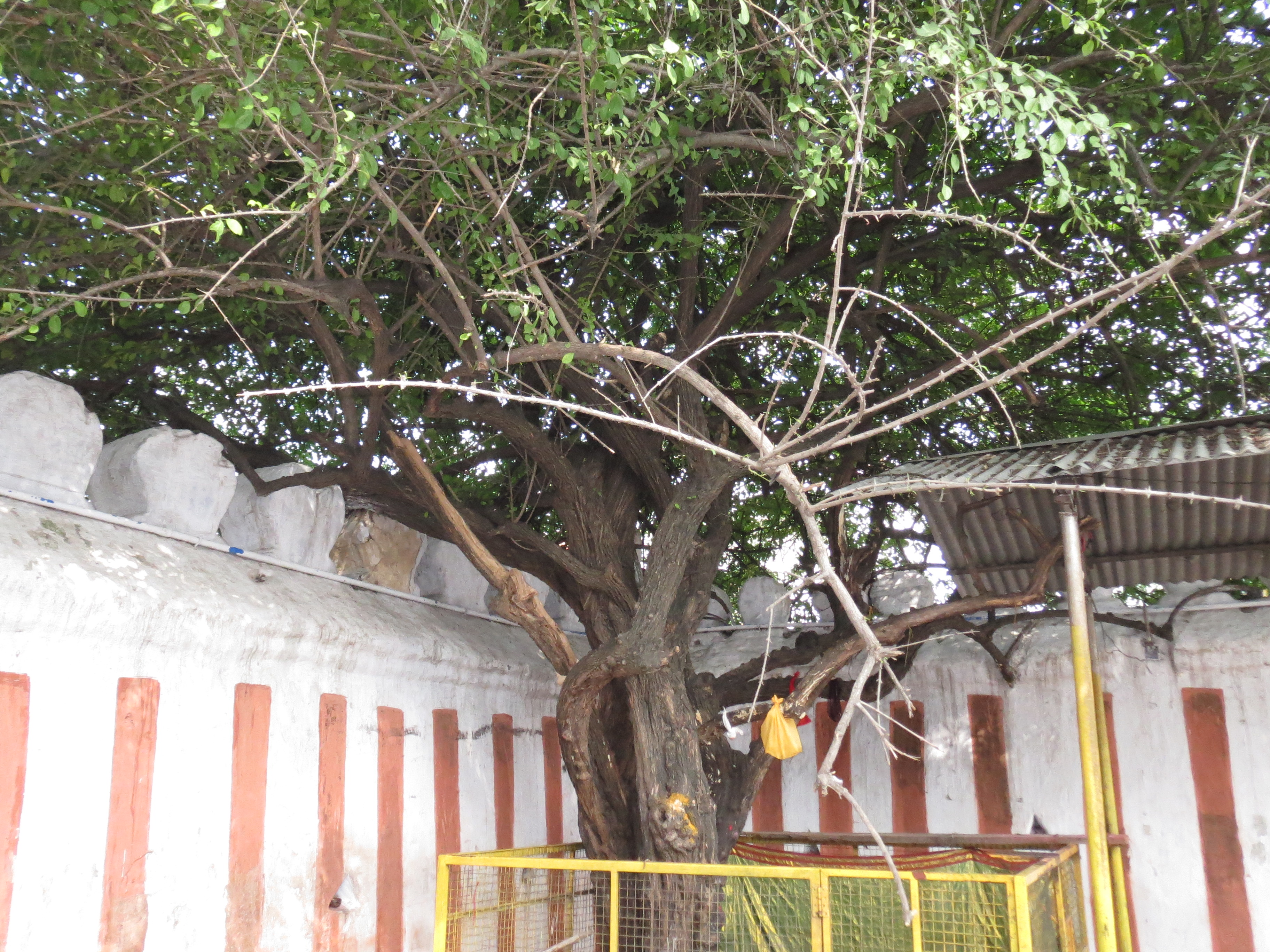 This tree, called Karai tree is seen in Ranganatha swami temple, Karamadai, Coimbatore, Tamil nadu. It is the sthala viruksham of the temple.